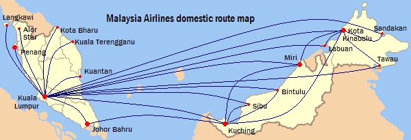 Malaysia Airlines domestic route map